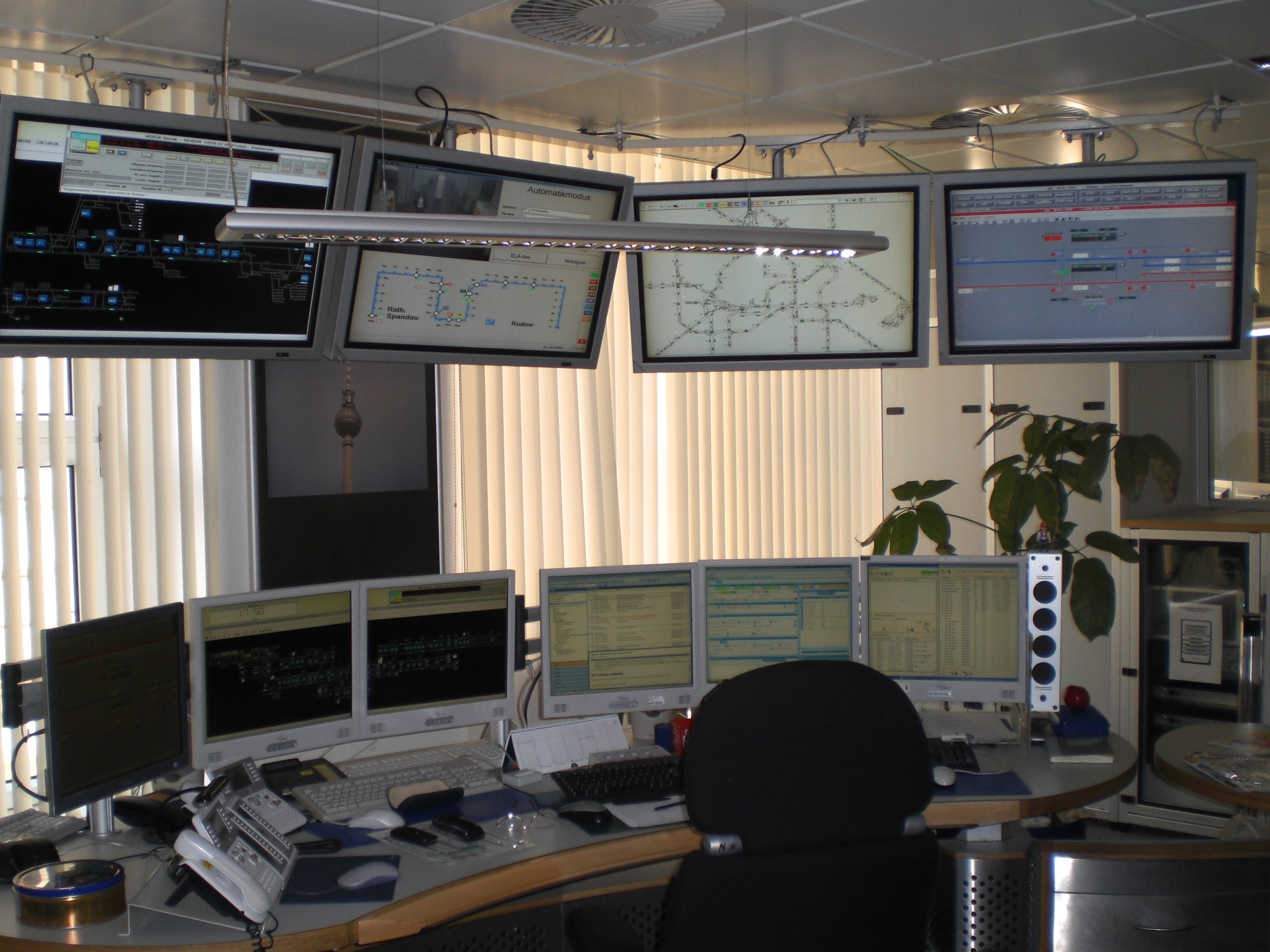 Centralized Control at Berliner U-Bahn (tube), Germany